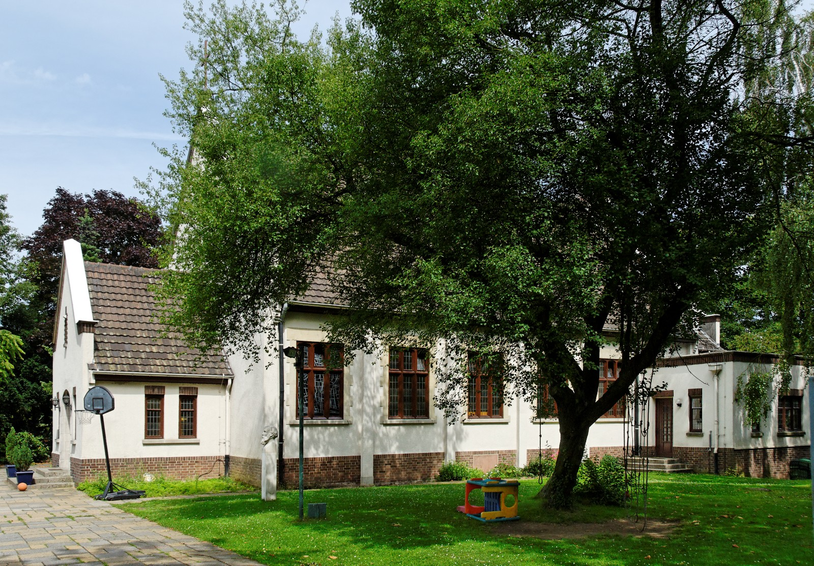 Anglican Church in Düsseldorf-Stockum, Germany